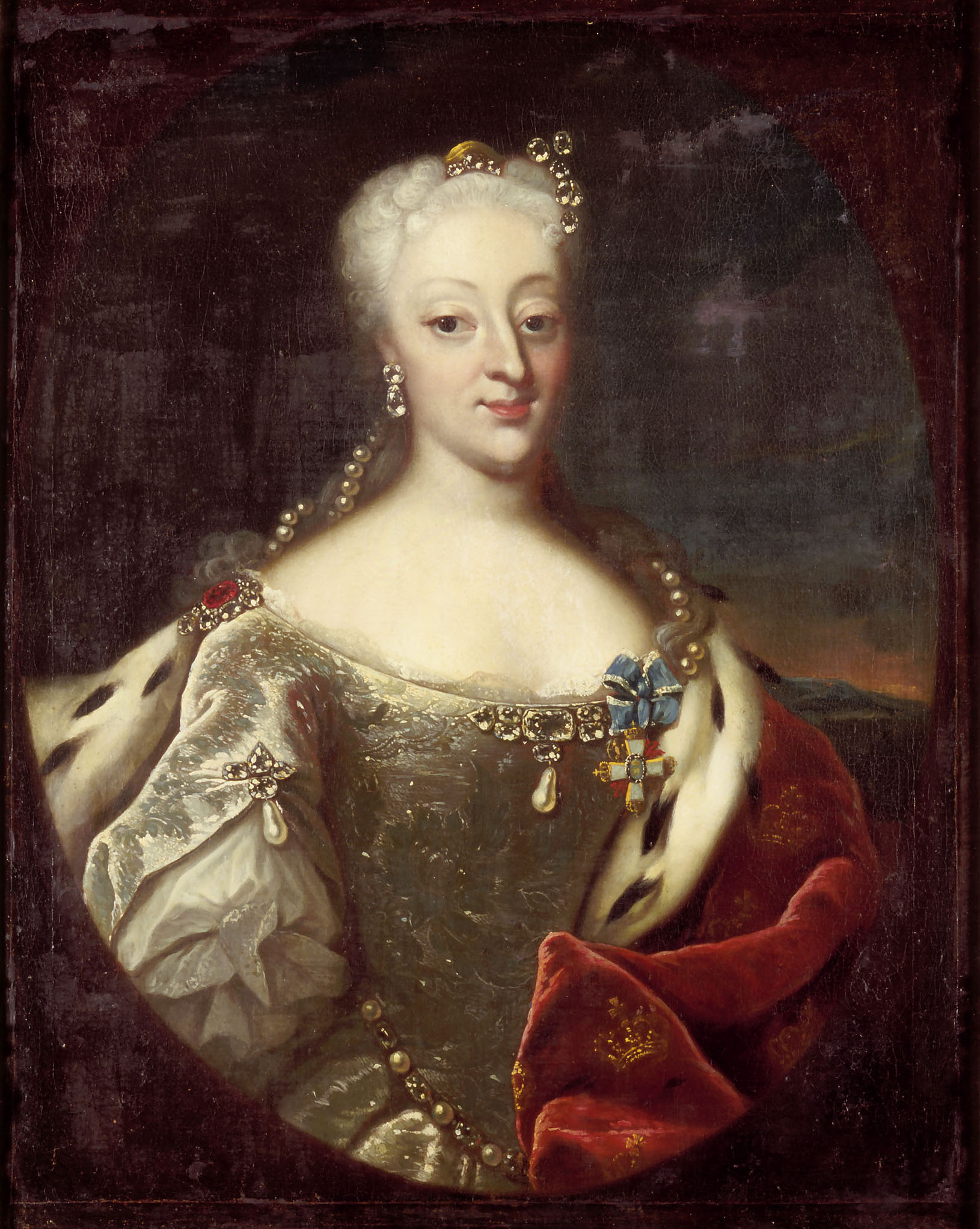 Portrait of Sophia Magdalene of Brandenburg-Kulmbach (1700-1770), Queen of Denmark